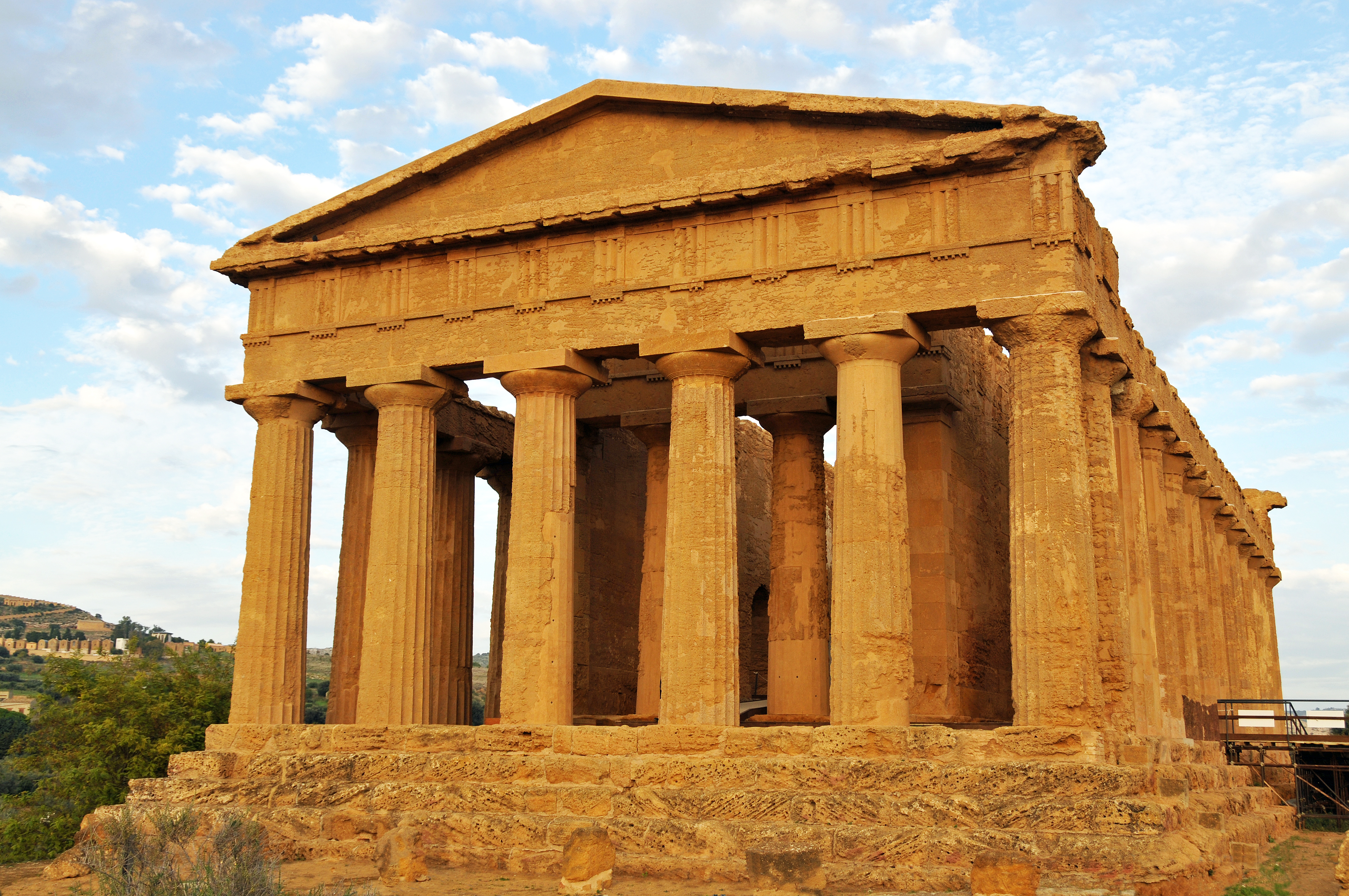 The Temple of Concordia erected around 430 BC., is the best preserved among the Doric temples of the Greek world, and one of the most beautiful in proportion and harmony of form. It is a four-sided structure measuring 20 by 42 meters. The colonnade, has 6 by 13 columns, each of a height of 6.75 meters.